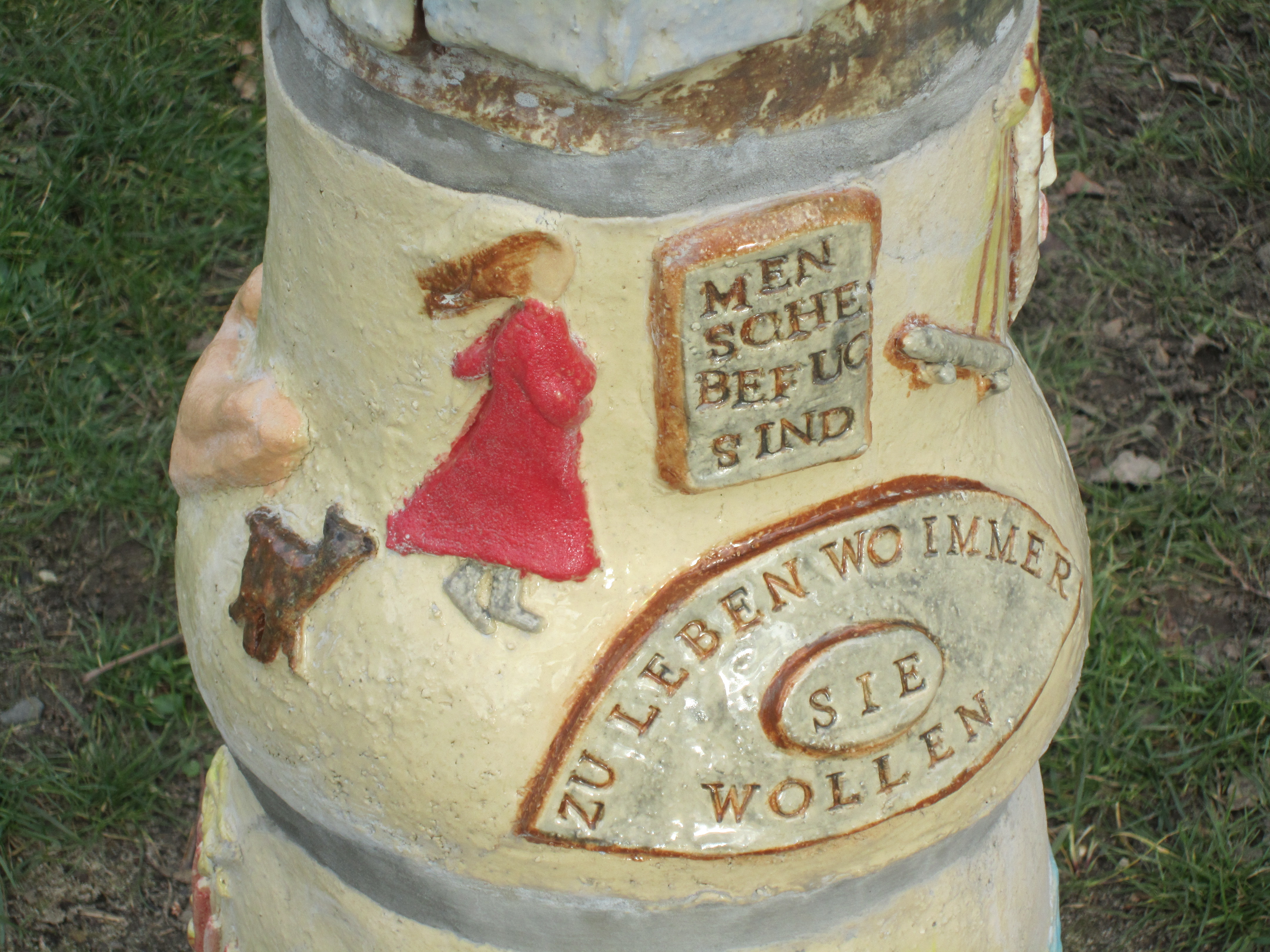 Part of the welcome column in Osterholz (Bremen) near a refugees' hostel; inscripture: "Menschen befugt sind zu leben wo immer sie wollen" ("Humans are allowed to live whereever they want to")